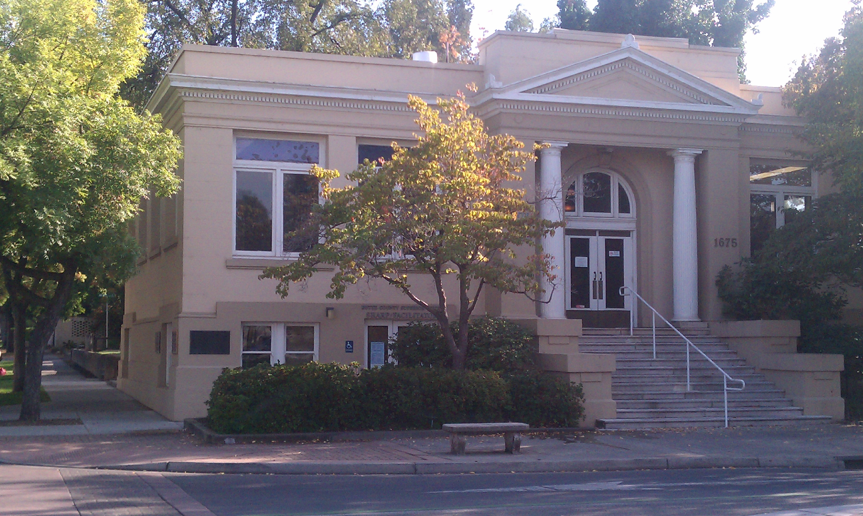 Oroville Carnegie Library, 1675 Montgomery St. Oroville